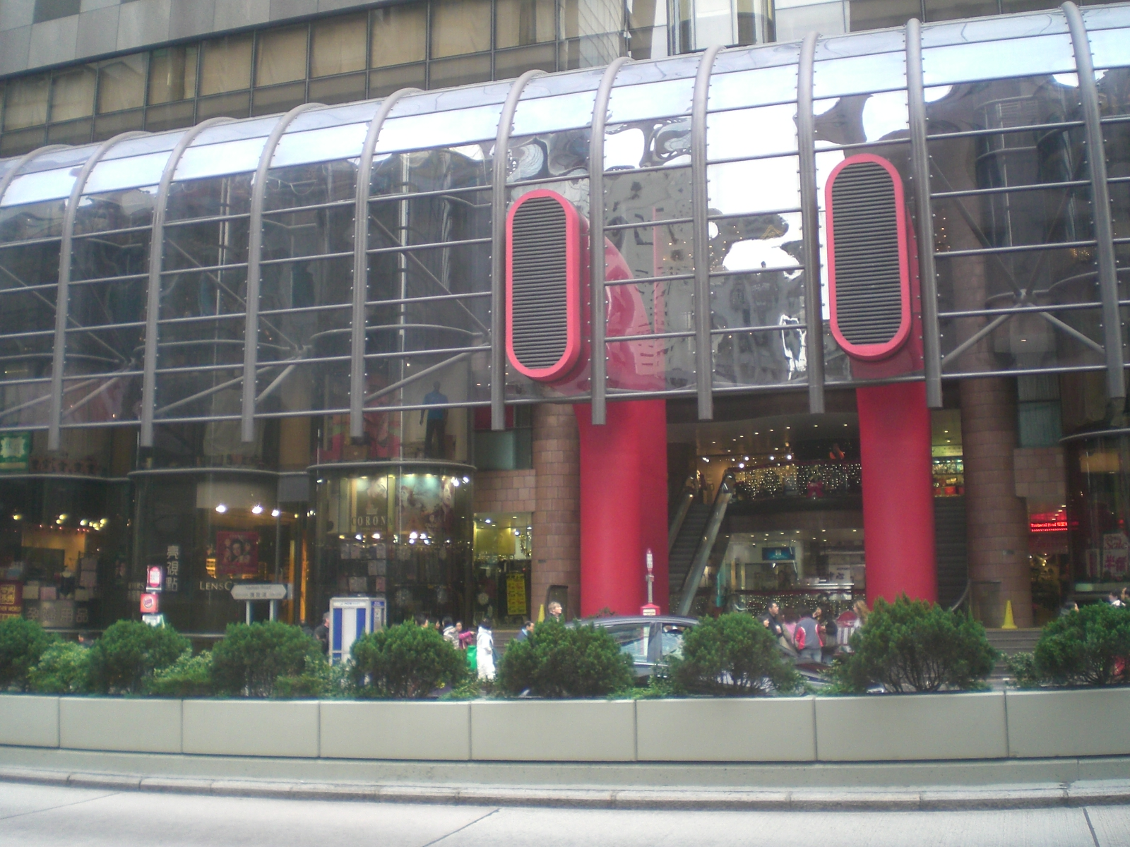 尖沙咀 彌敦道 恆豐中心